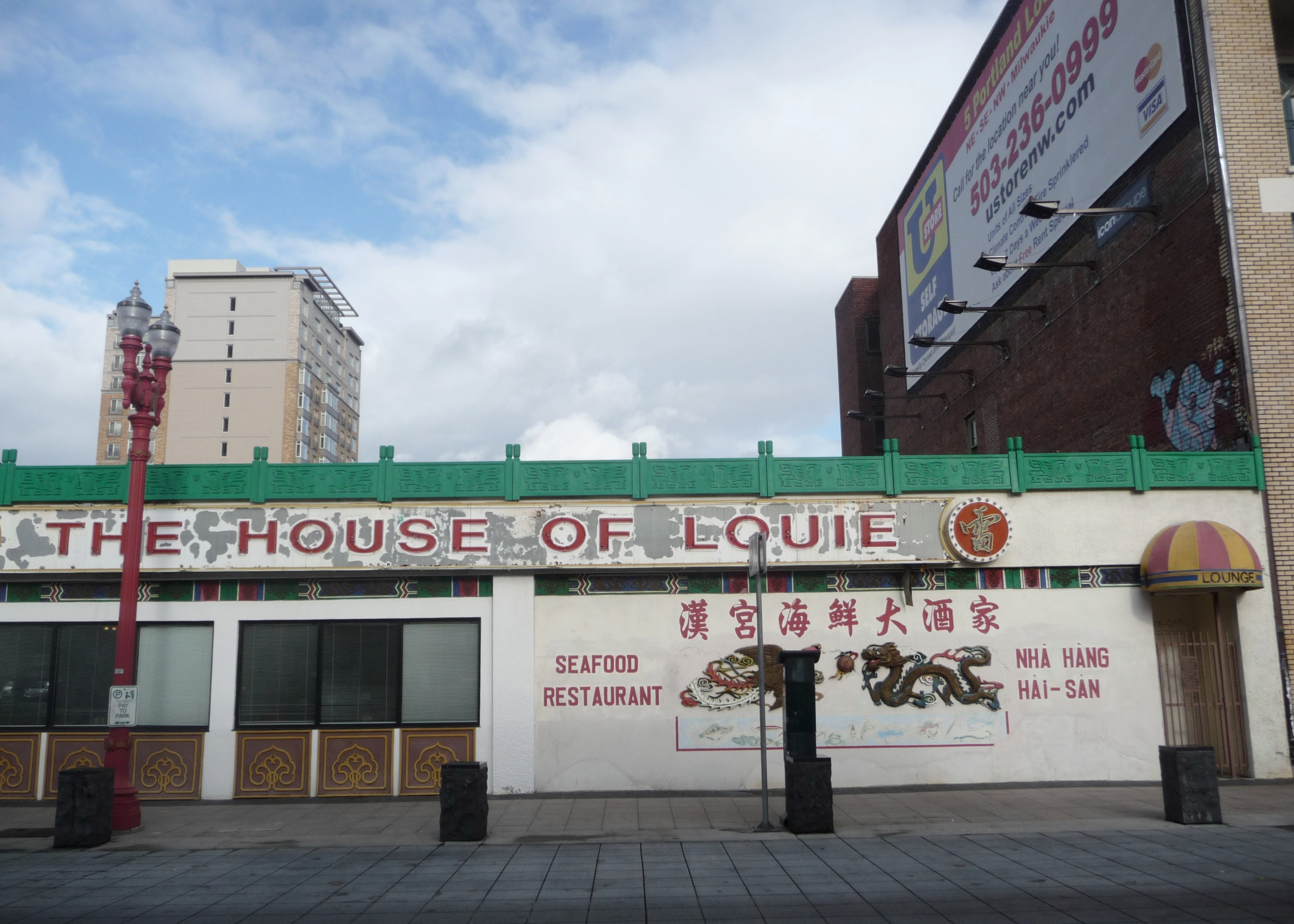 Chinatown - The House of Louie Seafood Restaurant and Lounge